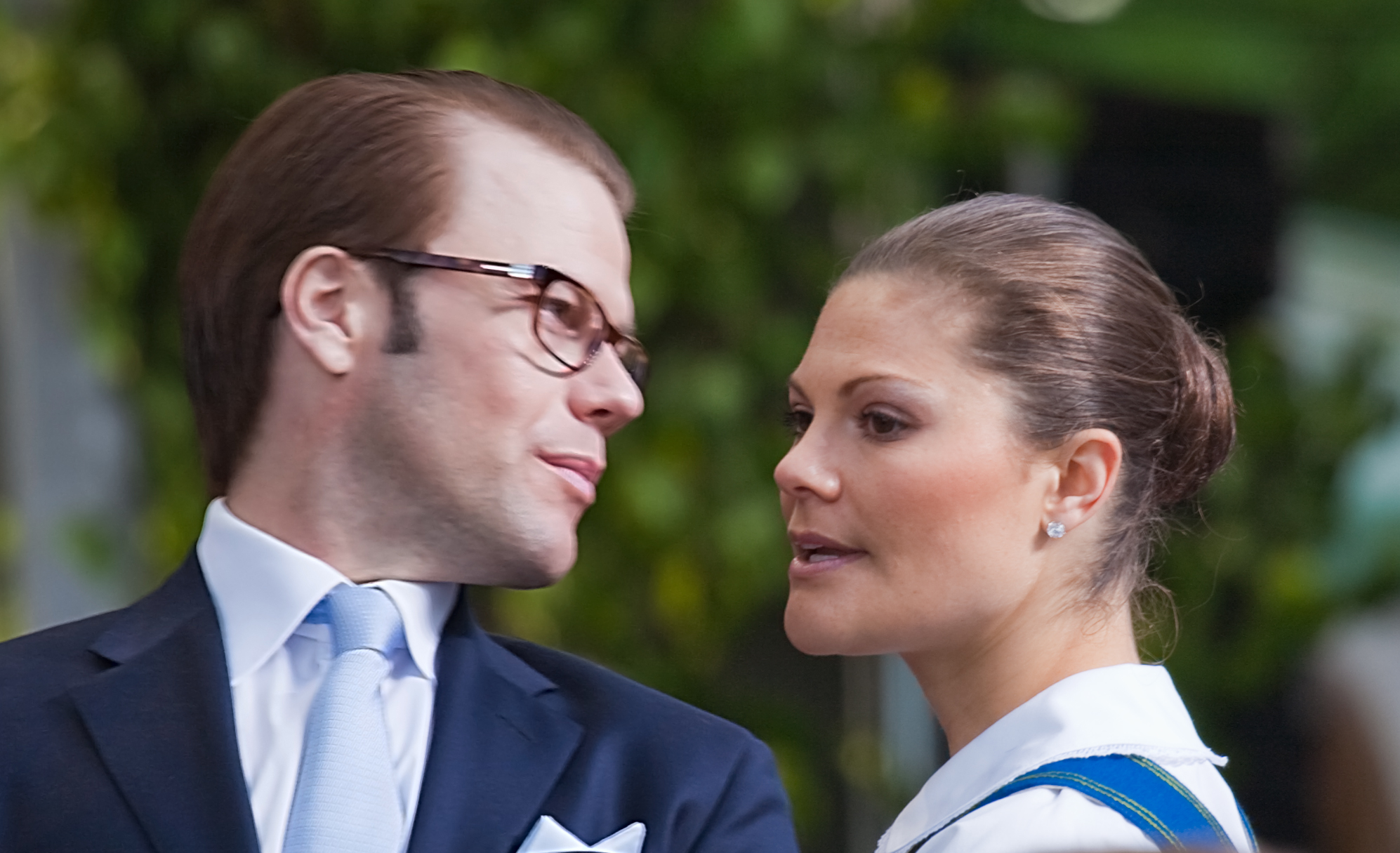 Crown Princess Victoria och soon to be Prince Daniel Westling at Skansen, Stockholm 2010